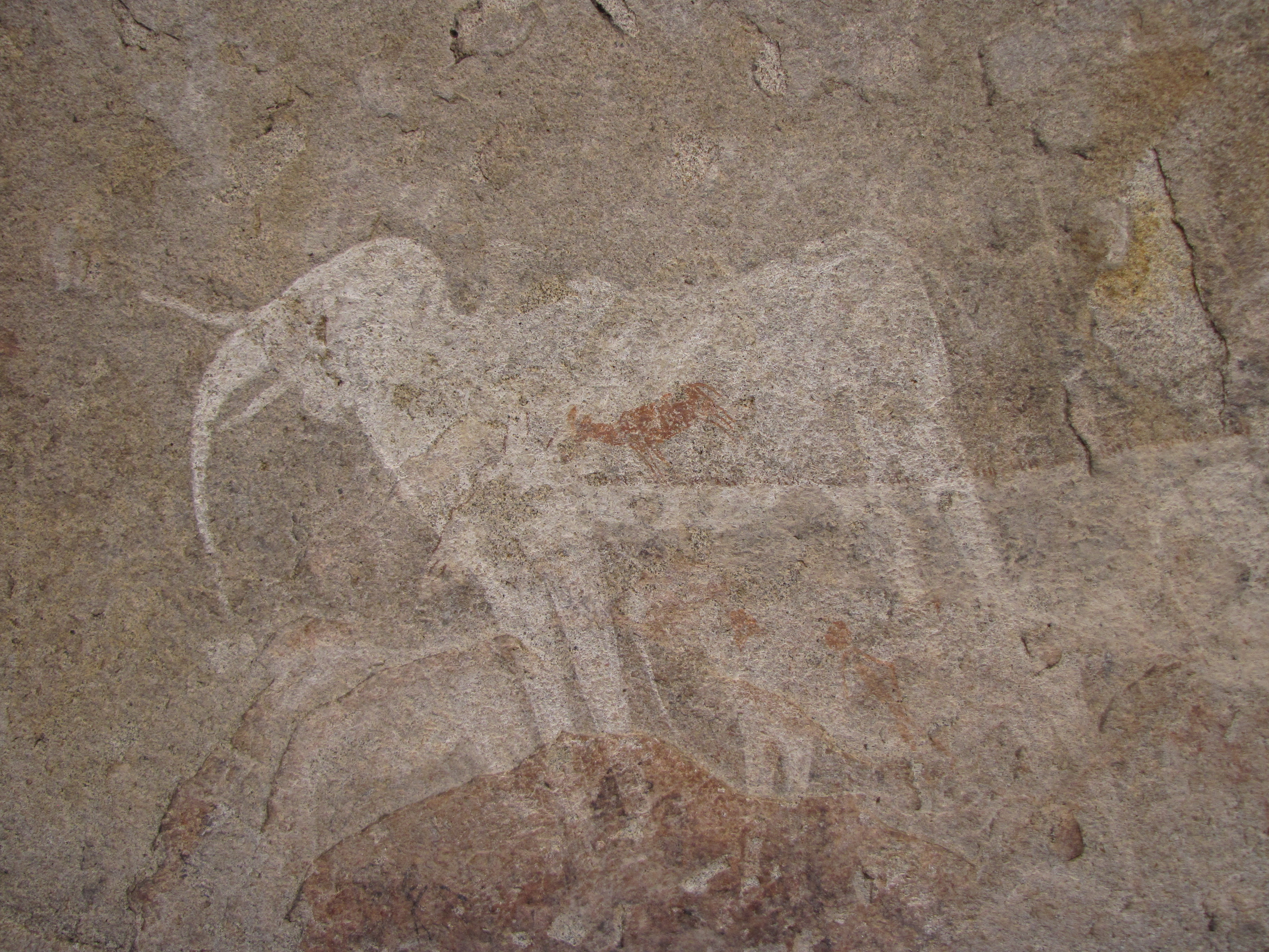 White_Elephant_Painting_Phillips_Cave_Erongo_Namibia